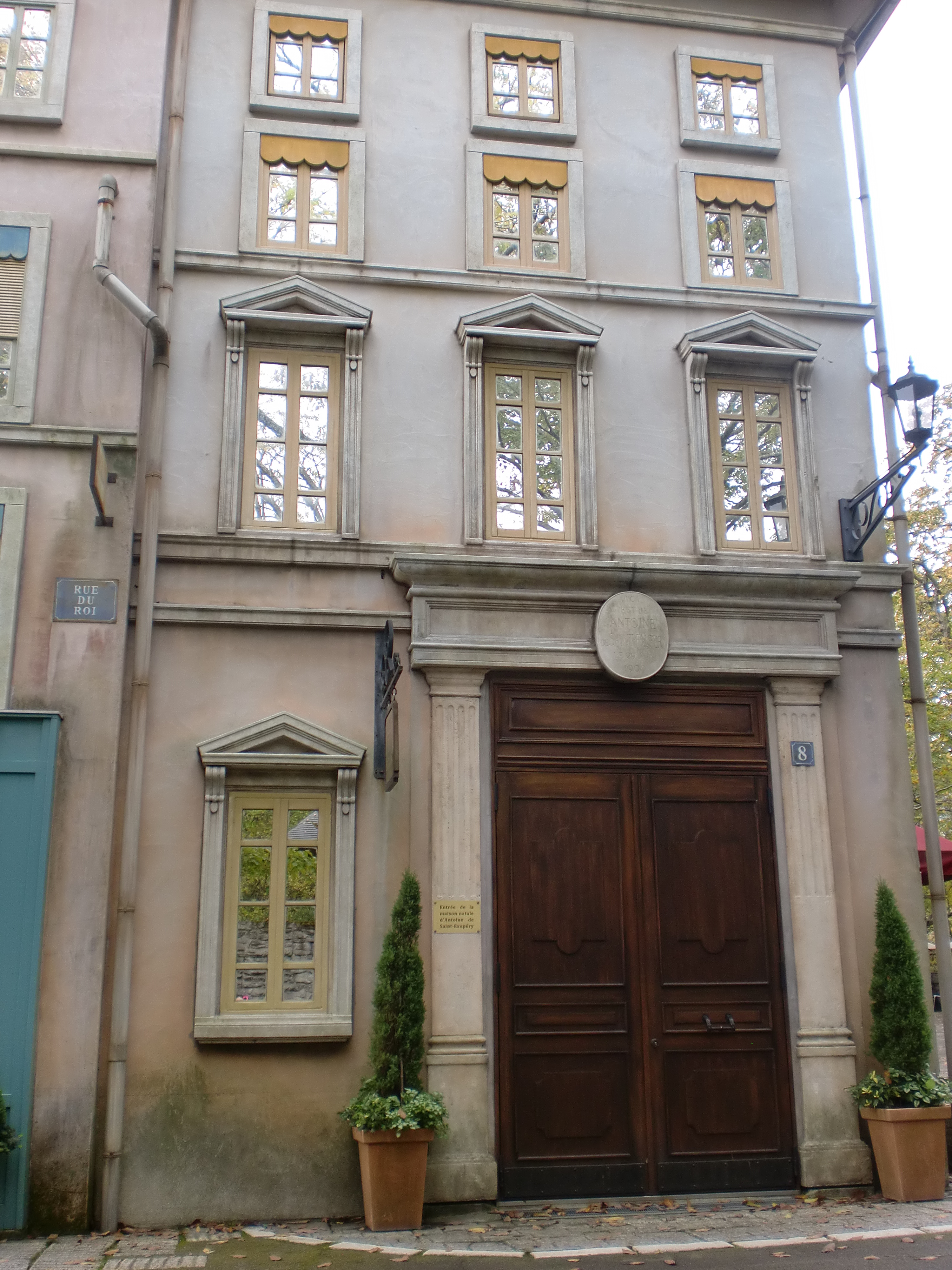 Musée du Petit Prince de Saint-Exupéry